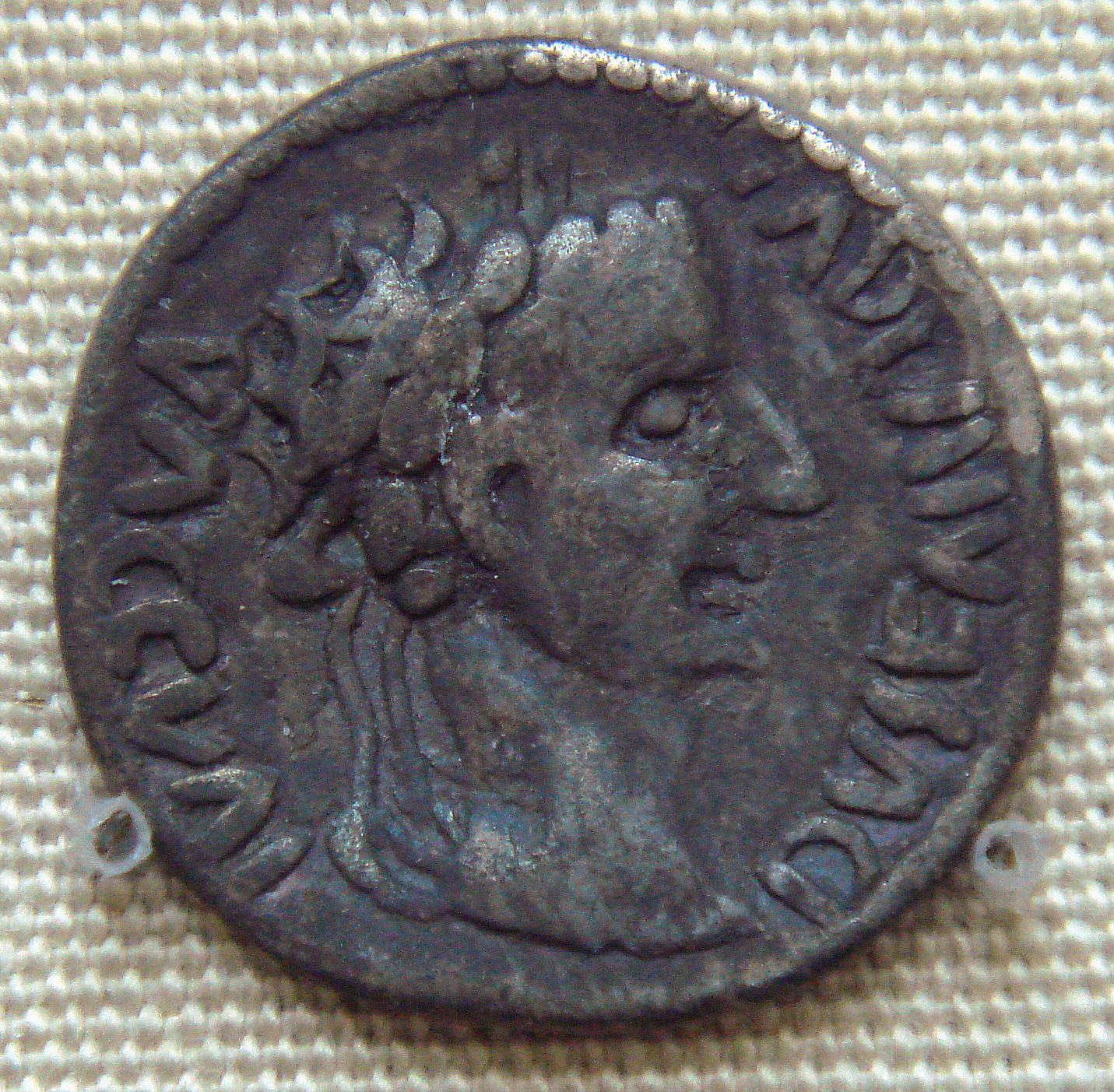 Tiberius Indian Imitation 1st Century AD